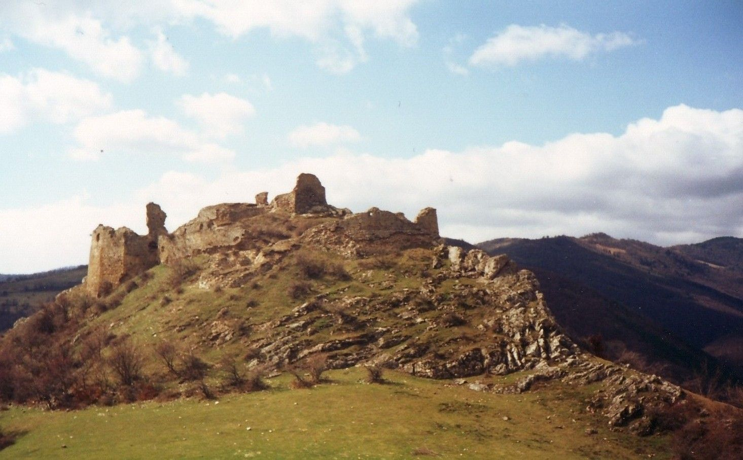 Liteni Castle in Cluj county, Romania